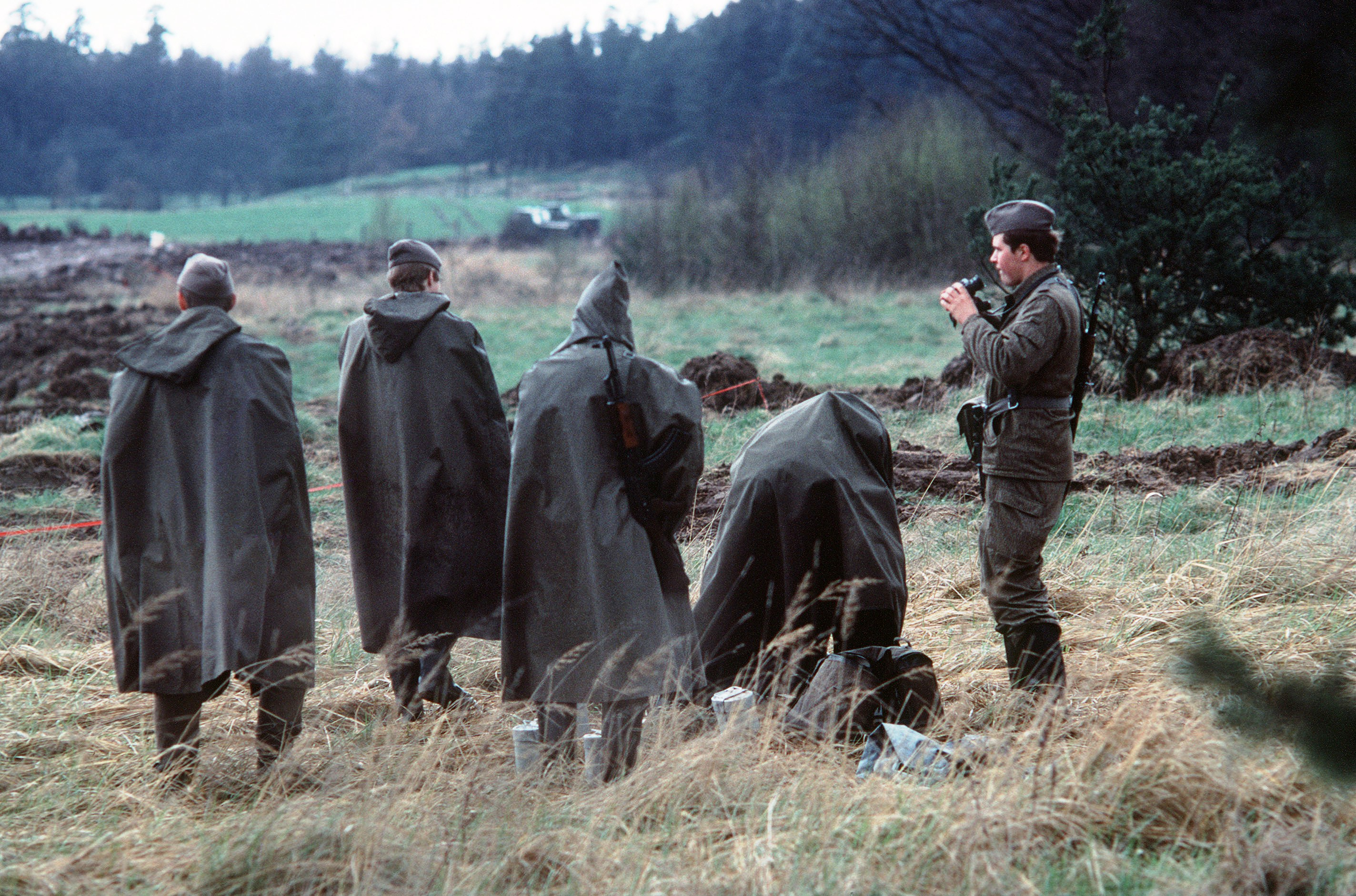 East German soldiers on guard at the border between East and West Germany.